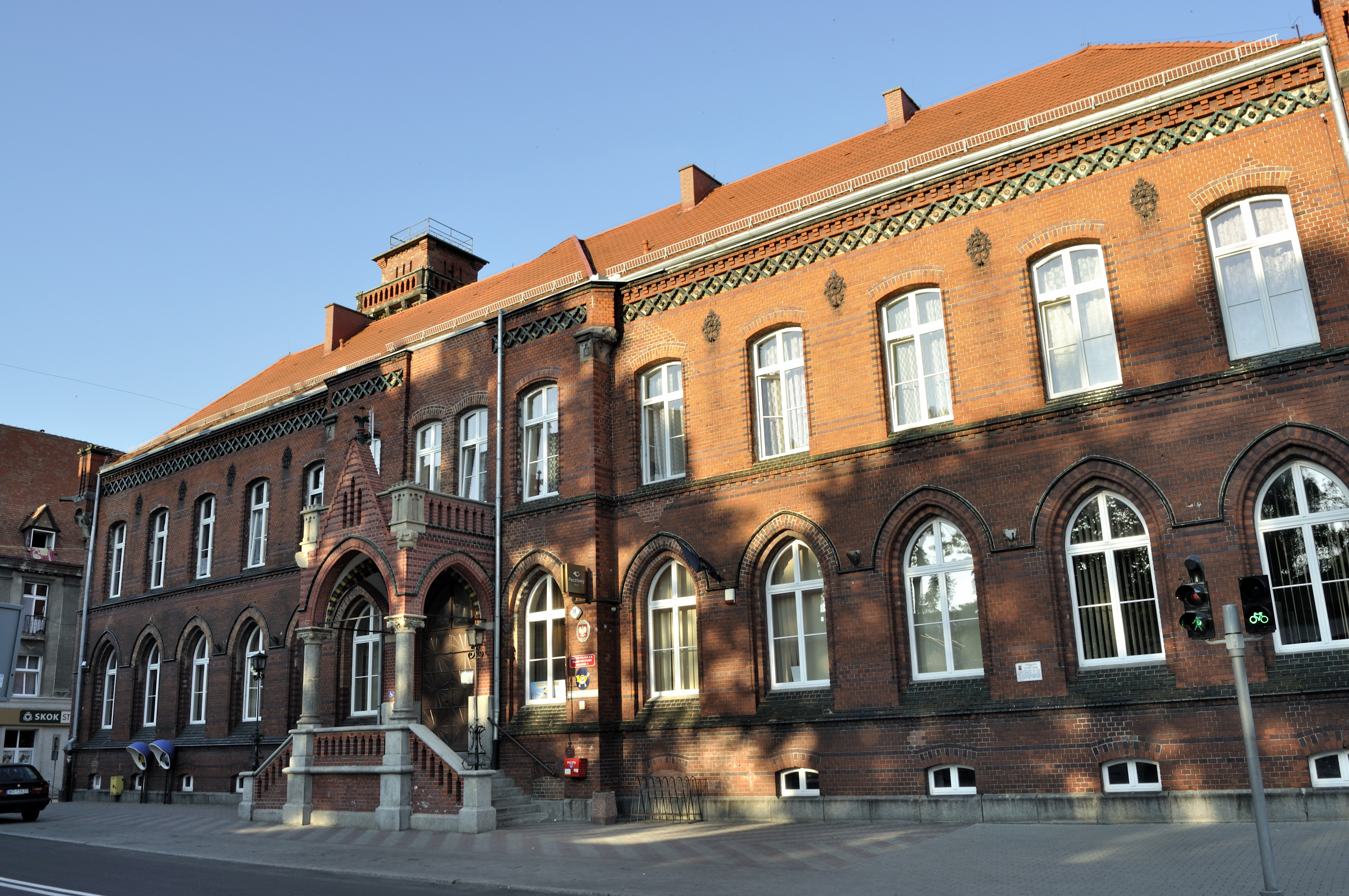 Picture taken in Malbork after Wikimania 2010 conference.